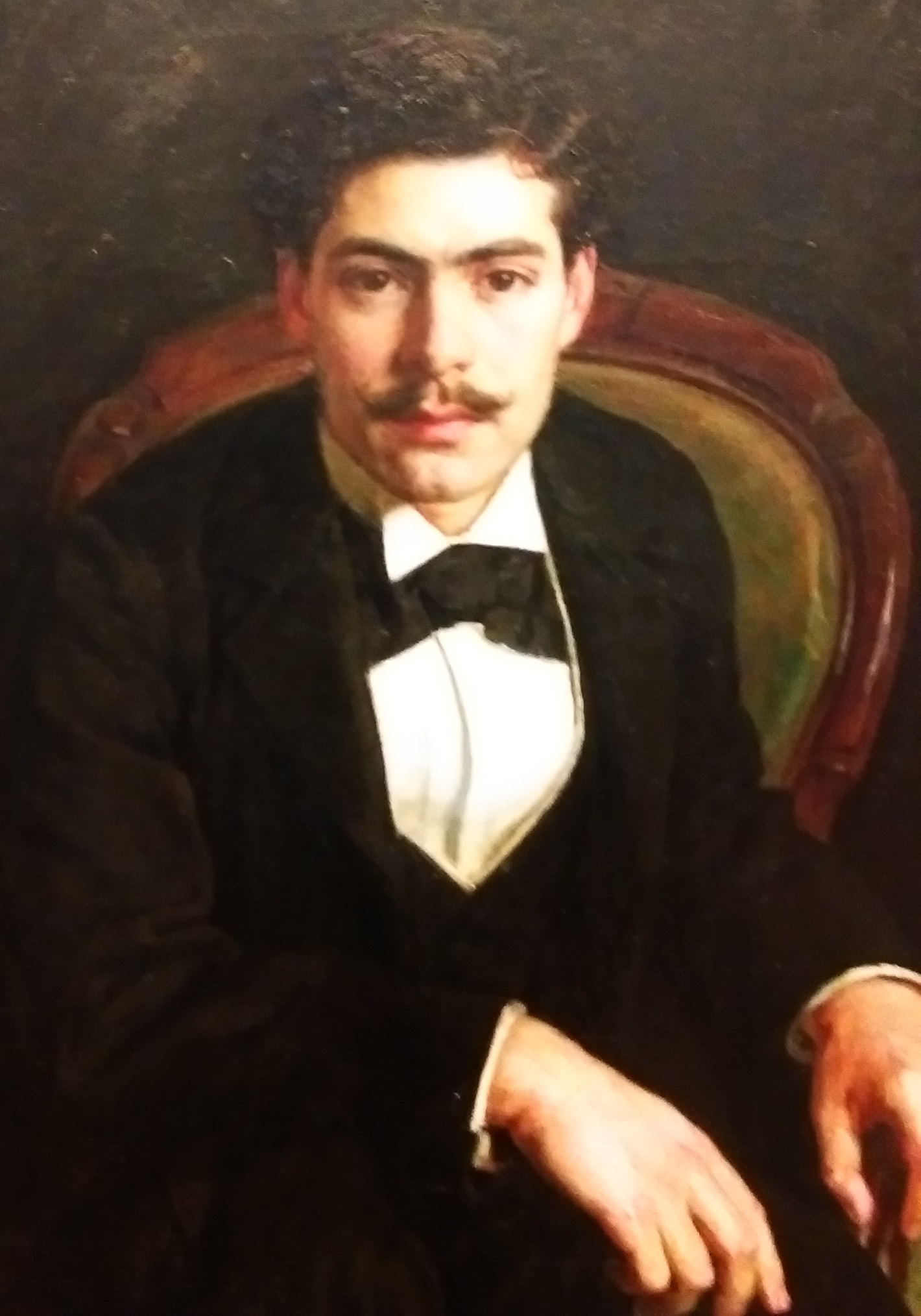 An 1898 portrait of the bulgarian artist Dragan Danailov by Georgi Mitov